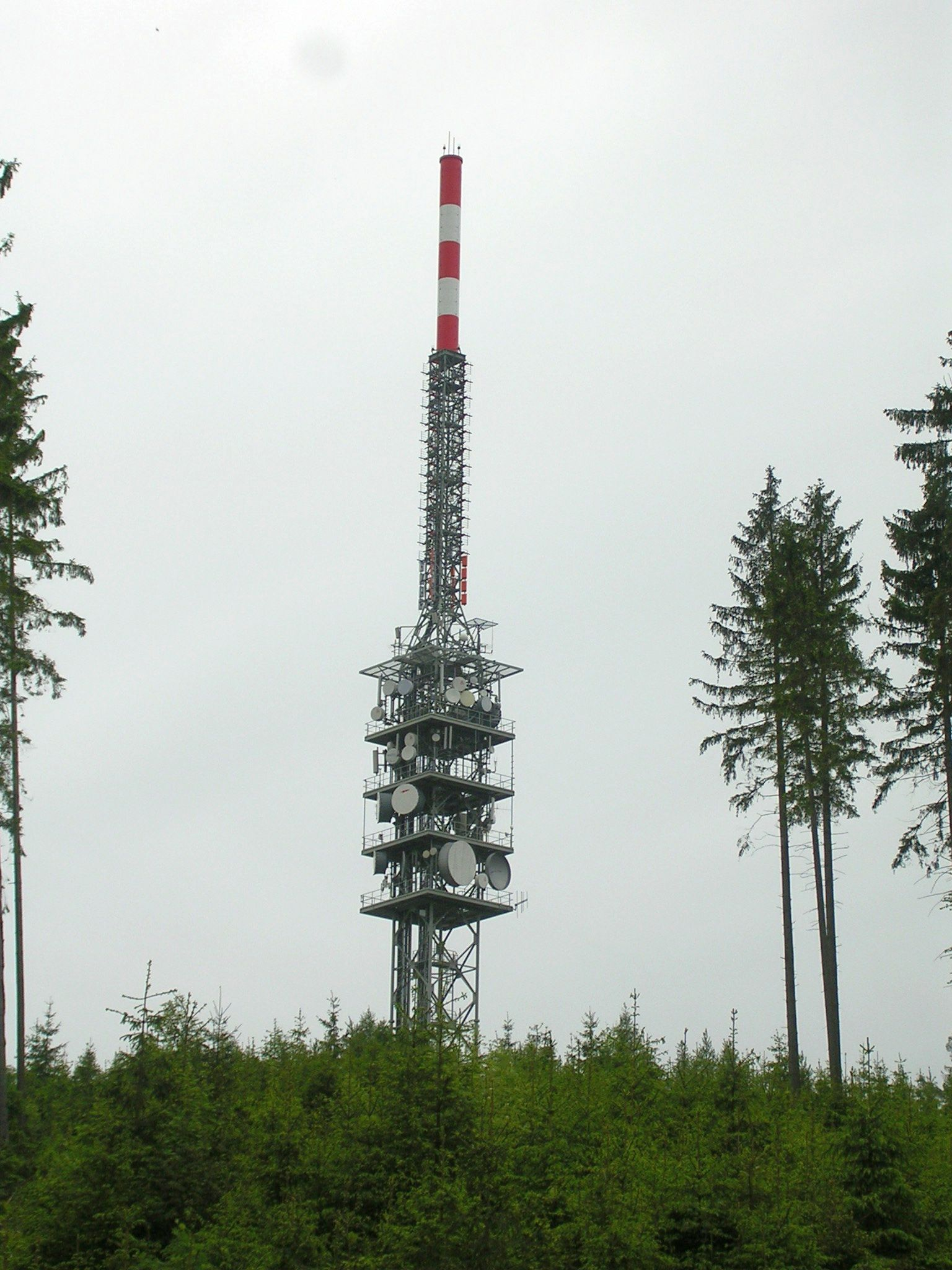 Neustupov, Benešov District, Central Bohemian Region, the Czech Republic. Mezivrata TV tower.